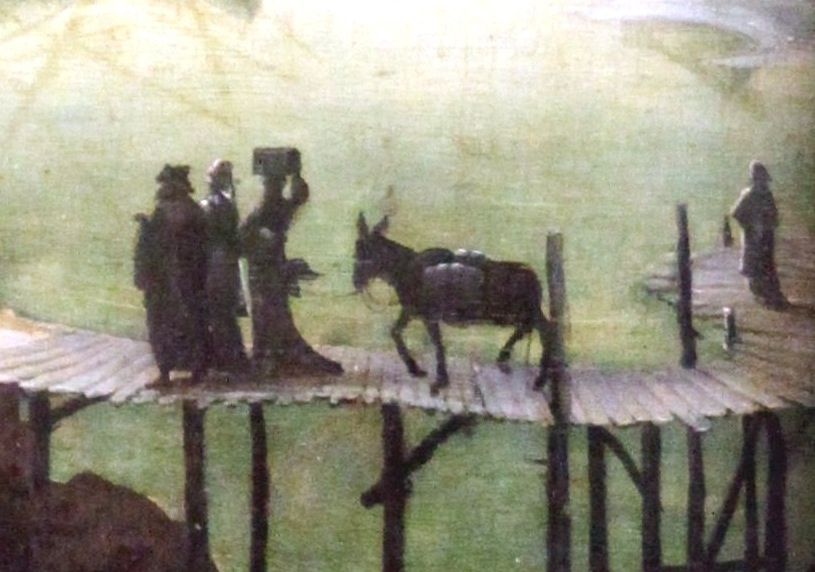 Lot and his daughters, Louvre (detail 2)